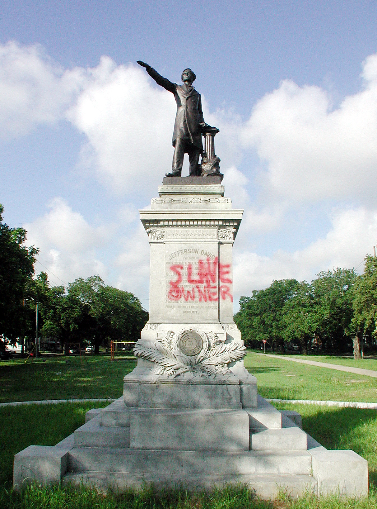 Mid-City New Orleans, May 21, 2004: Statue of Jefferson Davis, "subtly improved by local artists". Graffiti inscription "SLAVE OWNER"